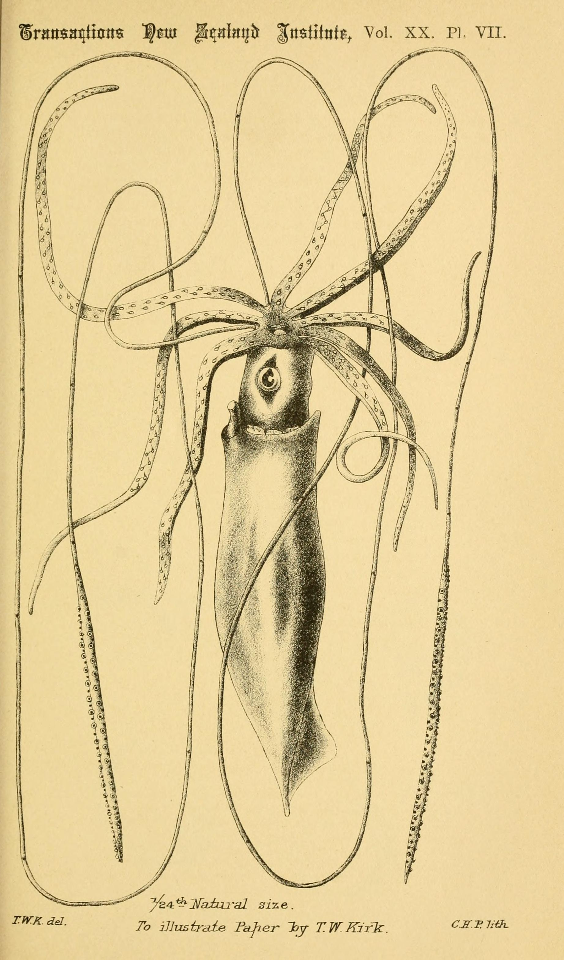 Plate VII from type description of Architeuthis longimanus (now considered a synonym of Architeuthis dux). Original description: "Architeuthis longimanus. Sketch showing side-view, 1/24th natural size."